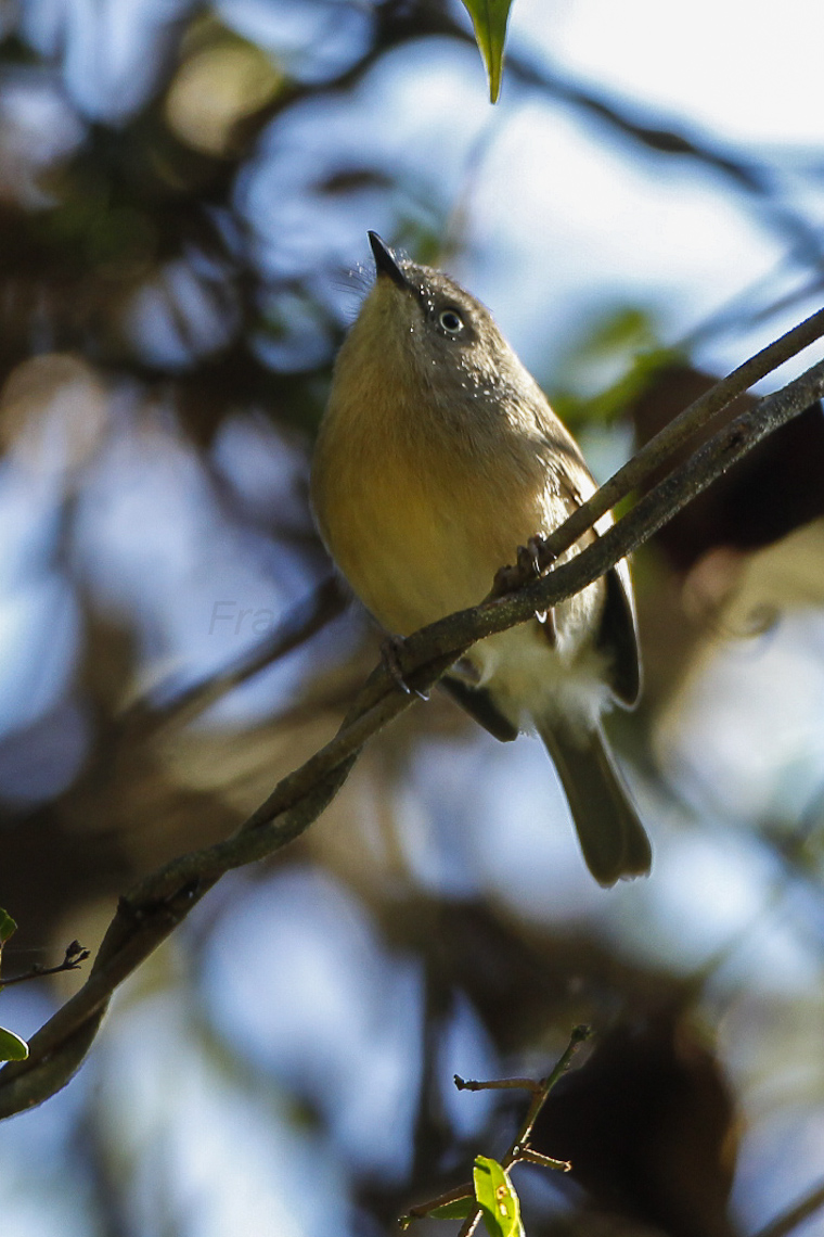 Common Newtonia - Ranomafana - Madagascar_S4E8187